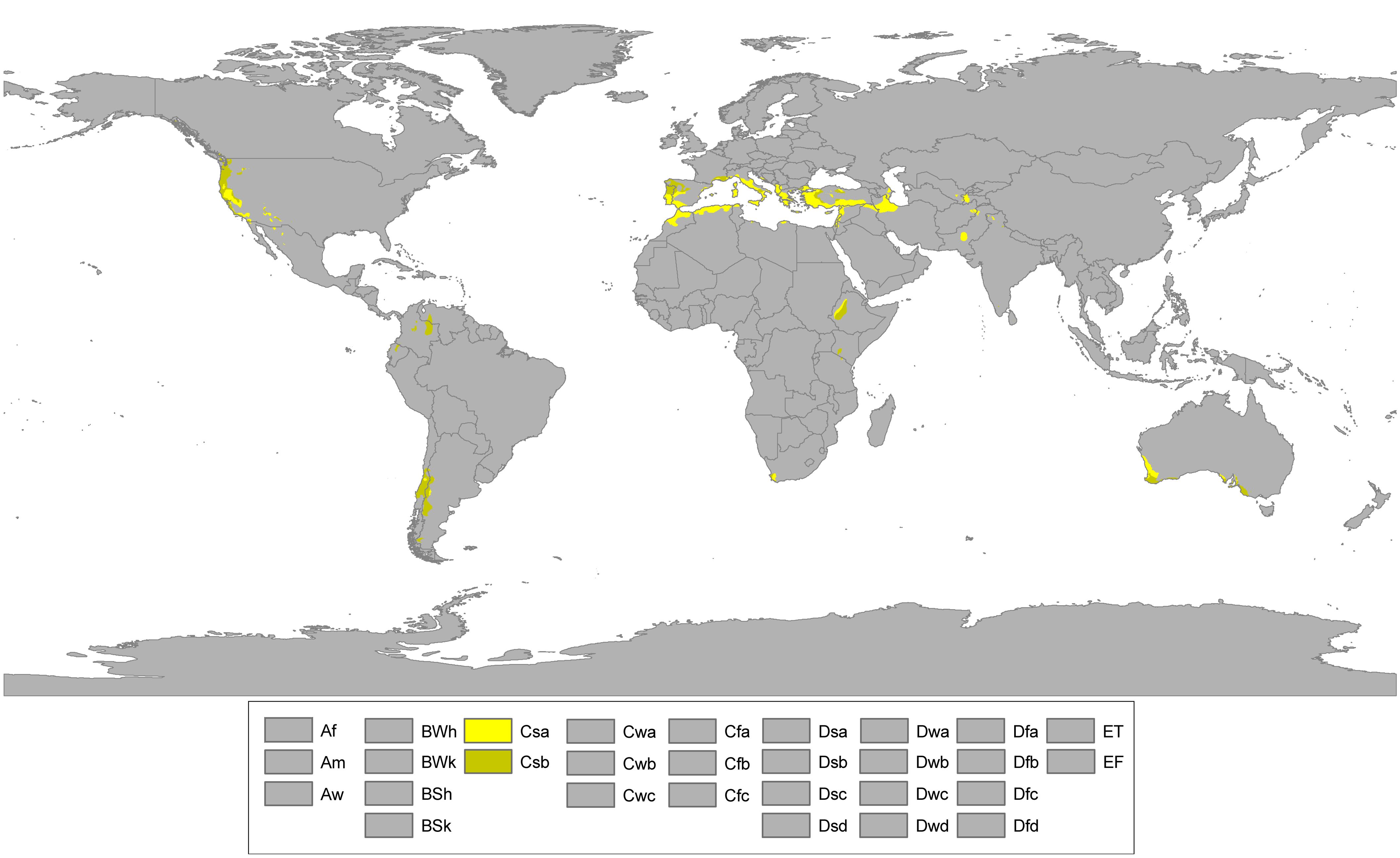 Updated world map of the Köppen-Geiger climate classification. Dry-summer subtropical and dry-summer temperate or Mediterranean climates (Csa, Csb).